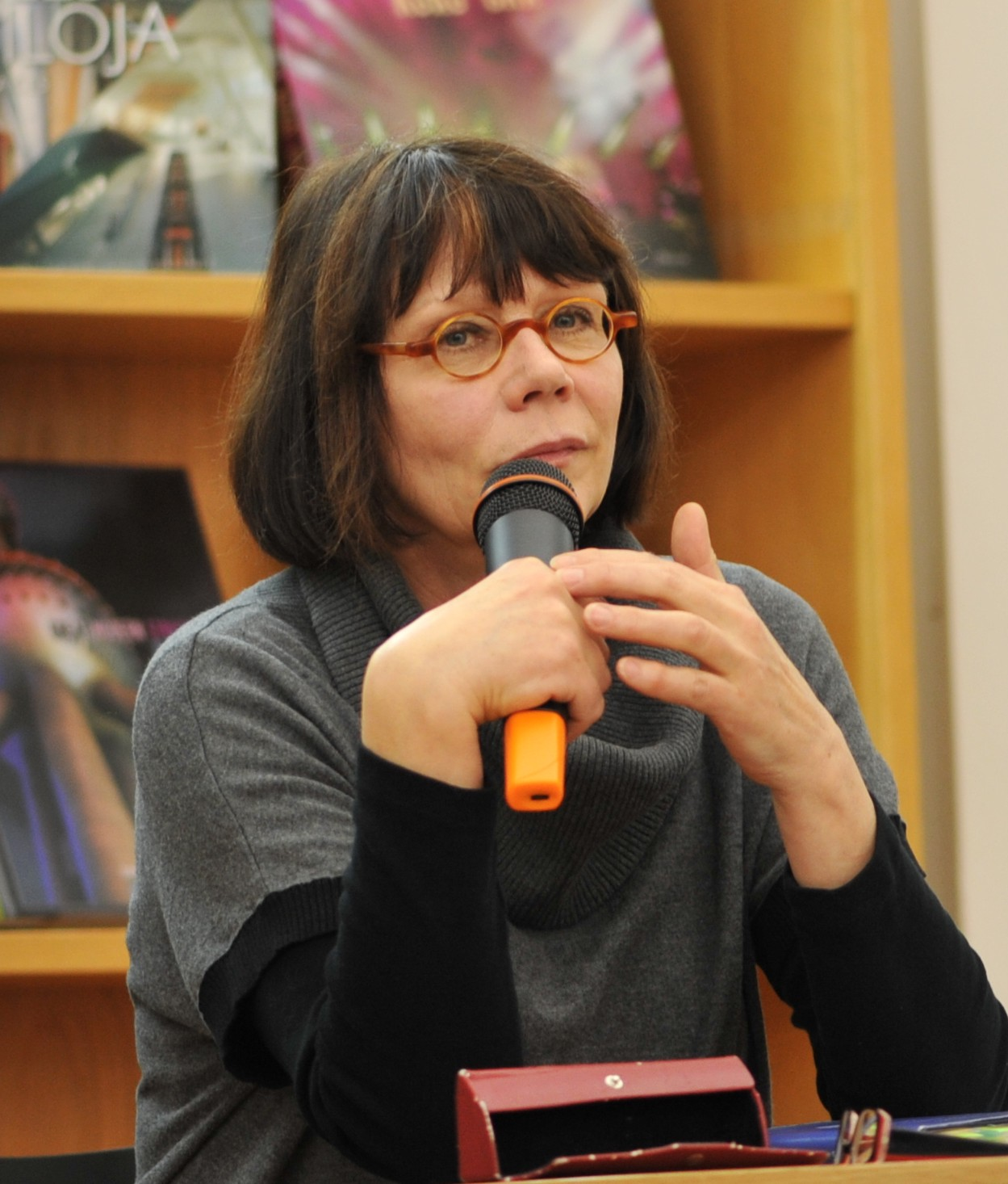 Kristina Carlson, Finnish writer, Vallila Library, Helsinki, December 2009.